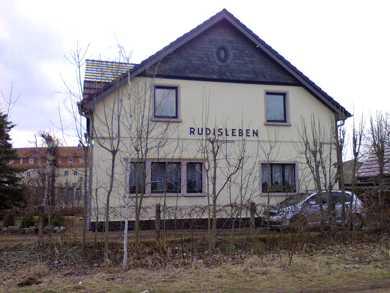 Bahnhof Rudisleben